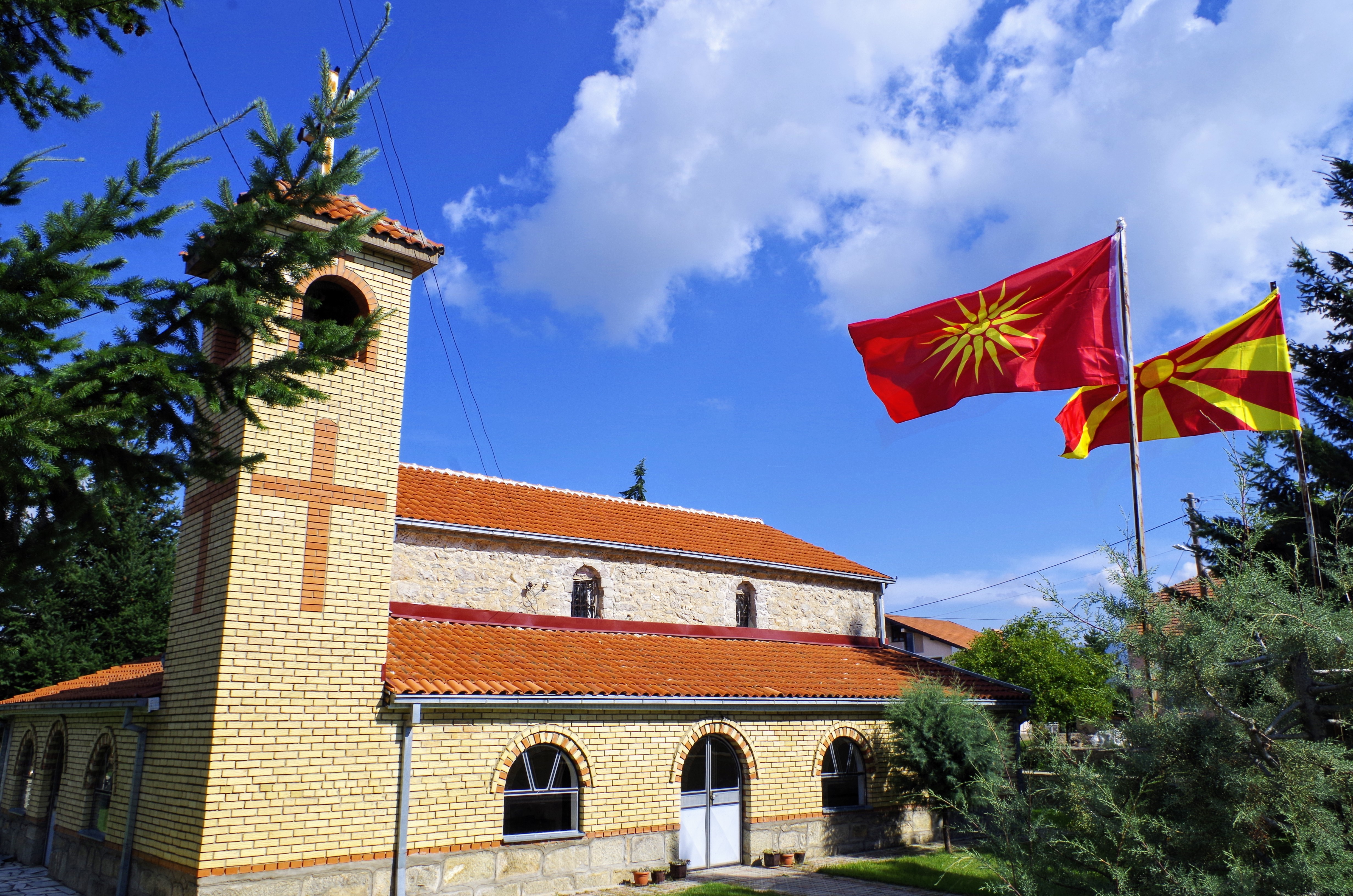 View of the Sts. Constantine and Helena Church in the village Dolna Bela Crkva